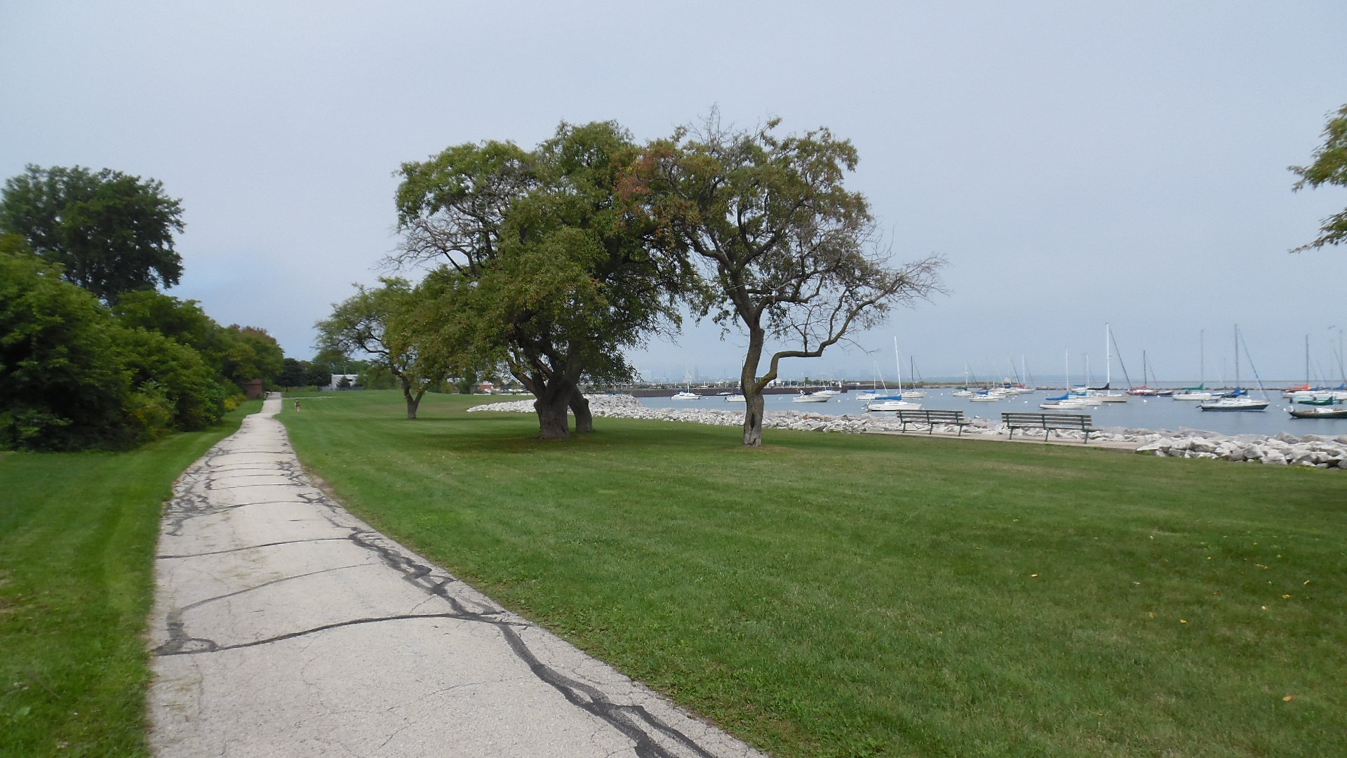 Looking North into Cupertino Park